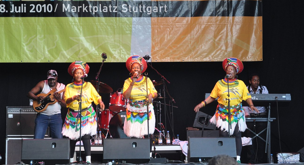 Mahotella Queens - Festival der Kulturen - July 15, 2010 - Stuttgart, Germany